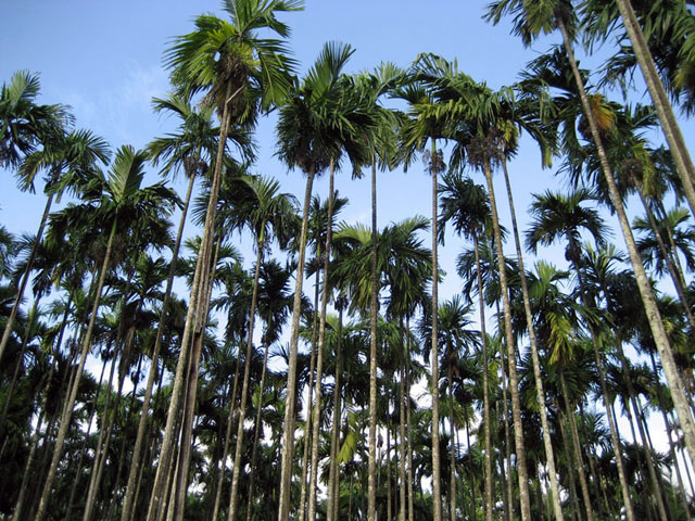 Sagar